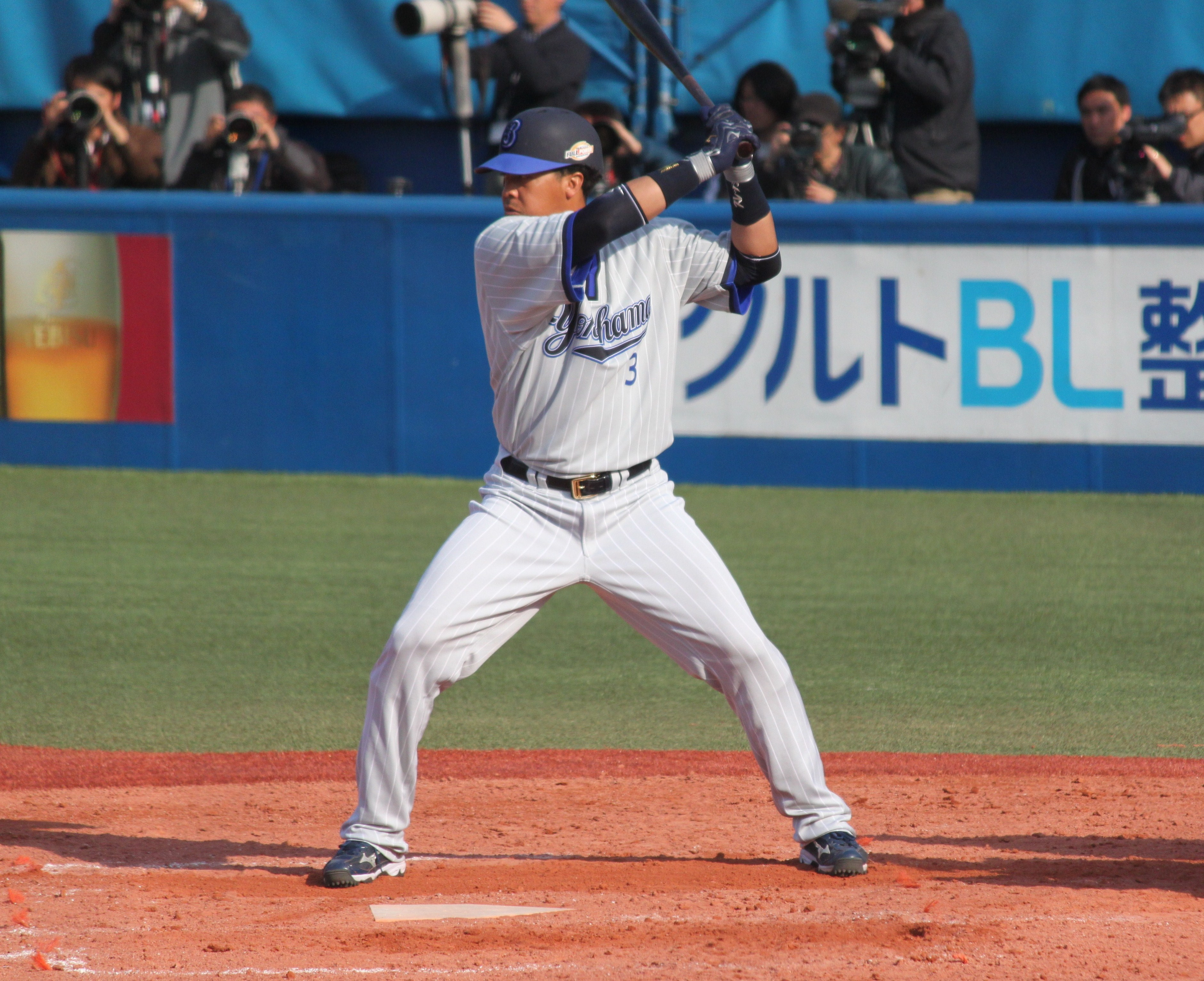 Terrmel Sledge, outfielder of the Yokohama BayStars, at Meiji Jingu Stadium.